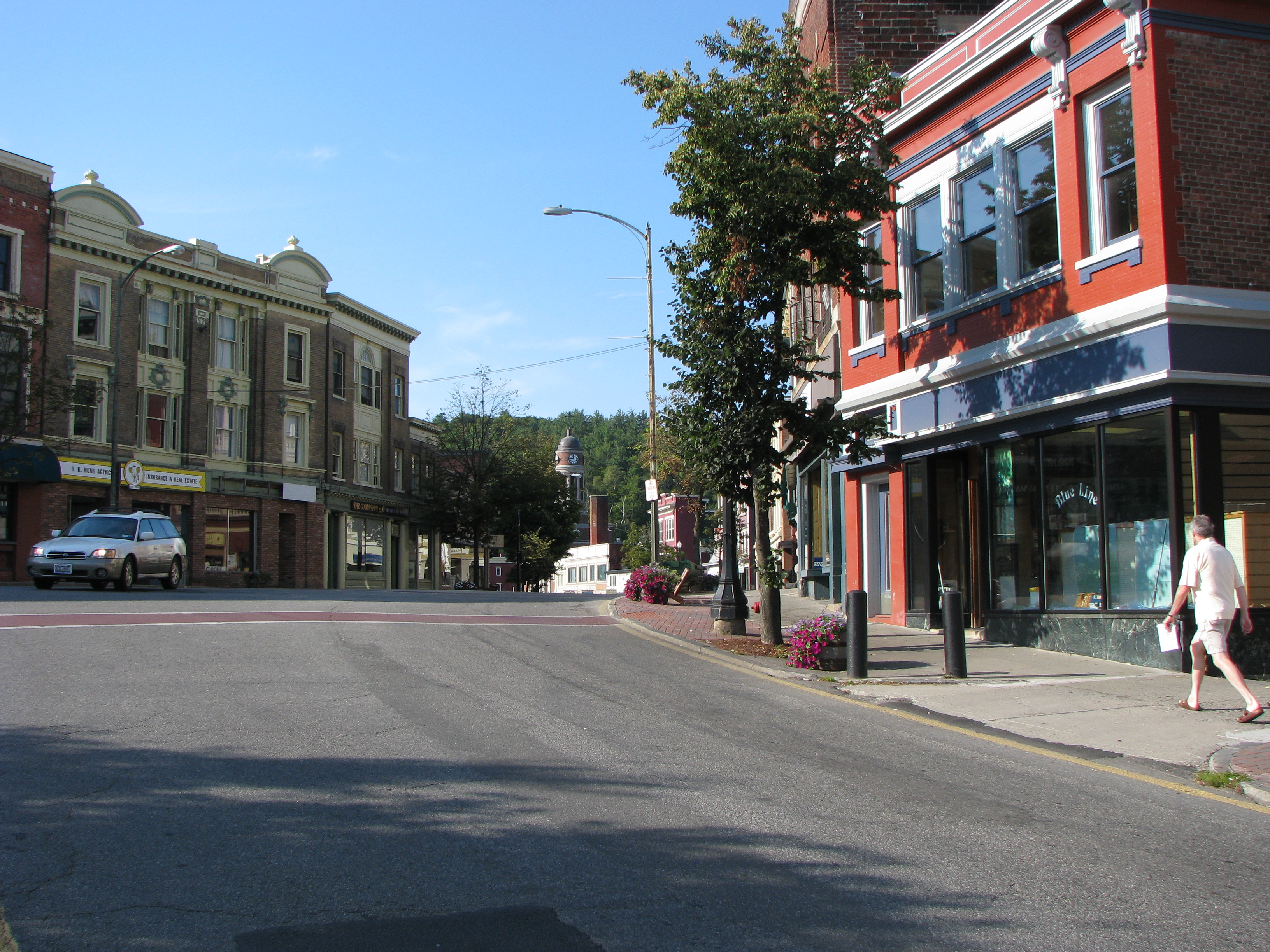 Berkeley Square Historic District, Saranac Lake, NY. At Berkeley Square, looking South on Main St.